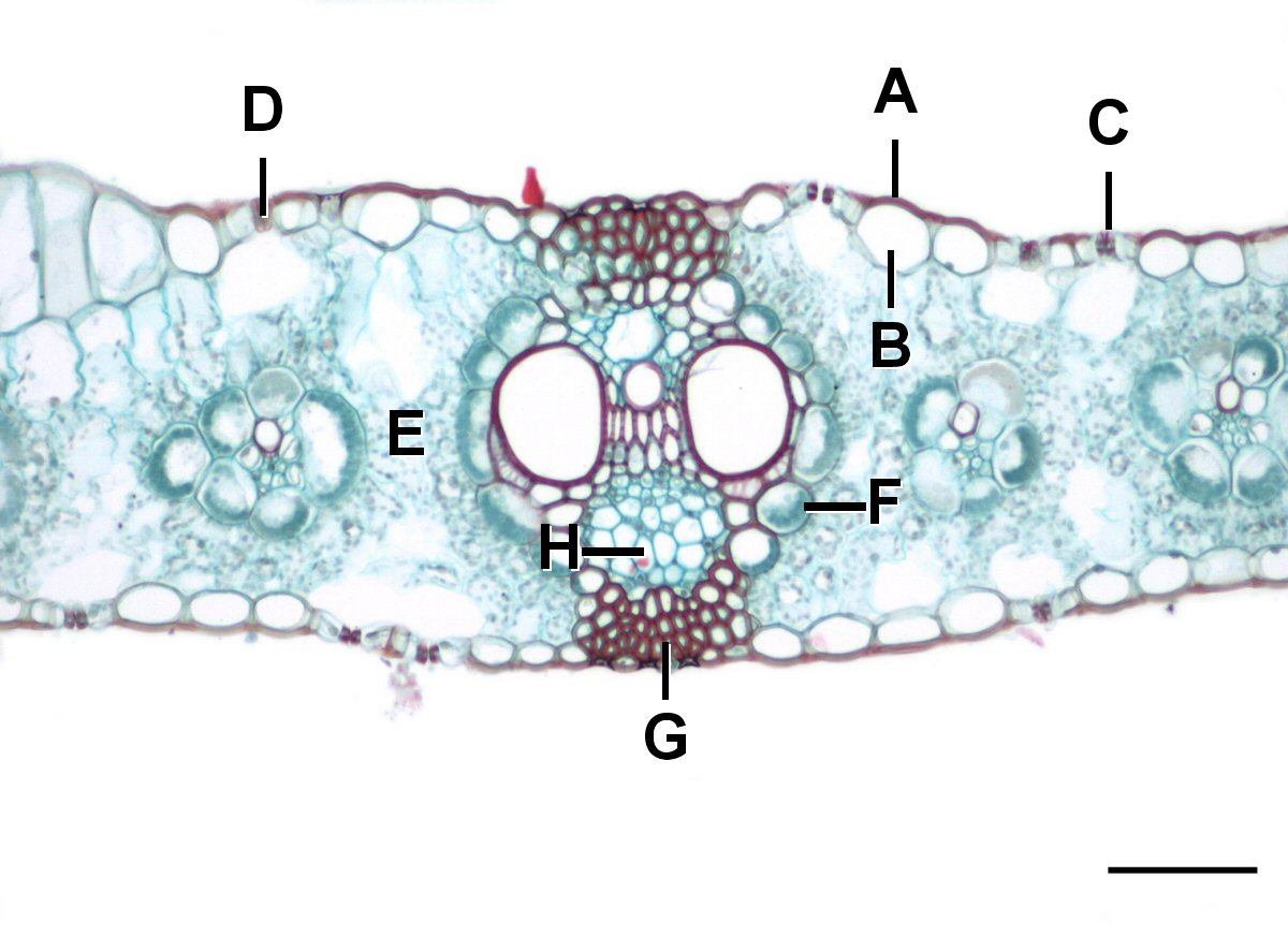 Photomicrograph of a Zea mays leaf. A-Cuticle, B-Epidermis, C-Stoma, D-Guard cell, E-Mesophyll, F-Bundle sheath, G-Fibers, H-Phloem. Scale=0.2mm.